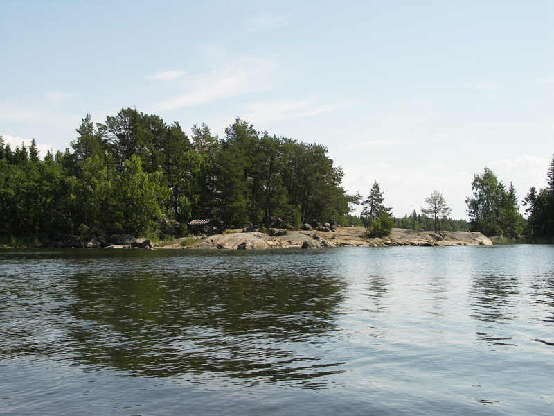 Fassgrund, Vörå-Maxmo, Finland